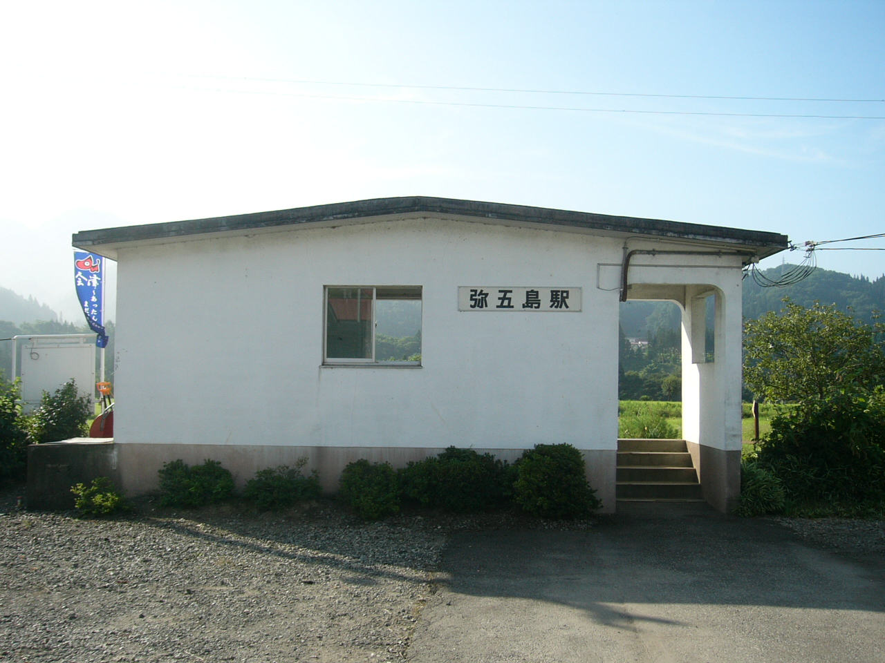 Yagoshima Station